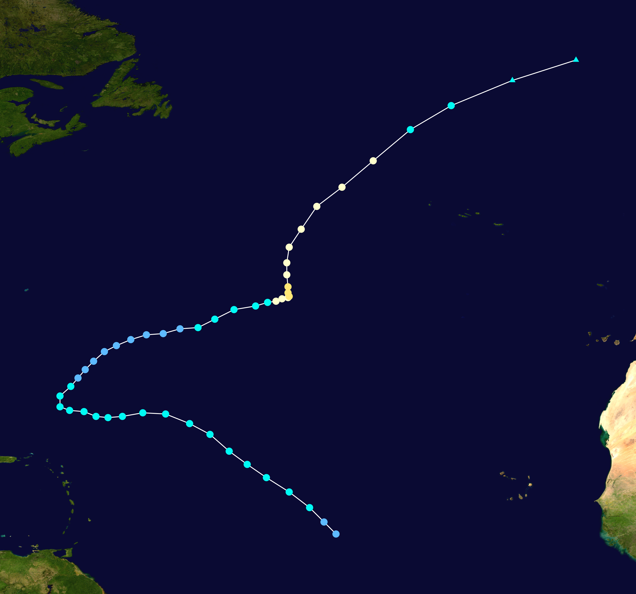 Hurricane Flossie (1978) track. Uses the color scheme from the Saffir-Simpson Hurricane Scale.